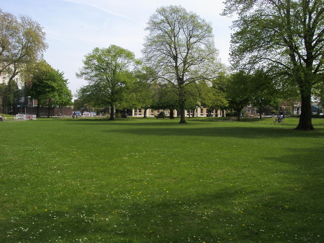 Mortlake Green Mortlake Green looking to Sheen Lane near Mortlake Railway Station